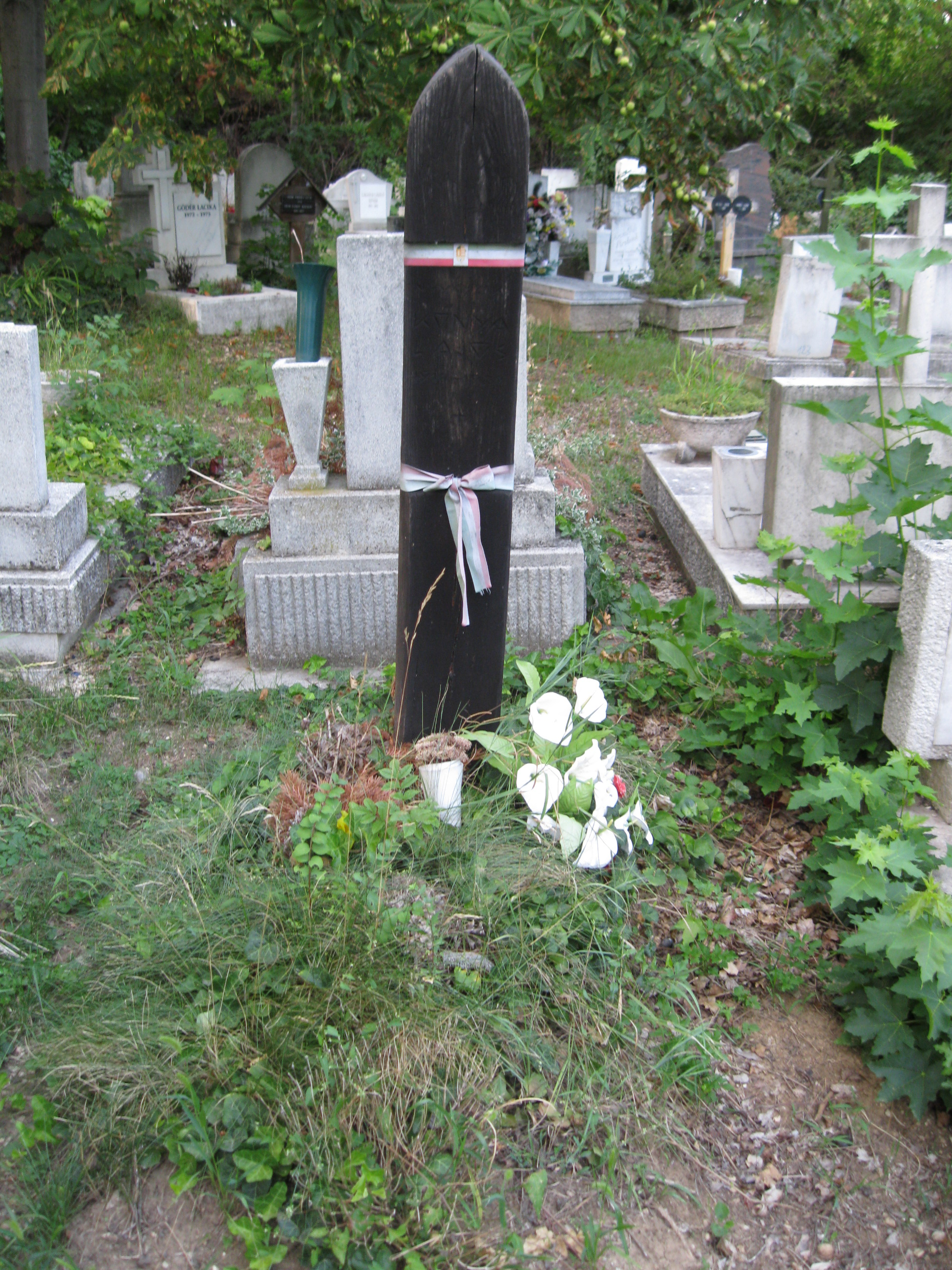 Tomb of Lajos Kónya in Farkasréti Cemetery [11/1-1-455]